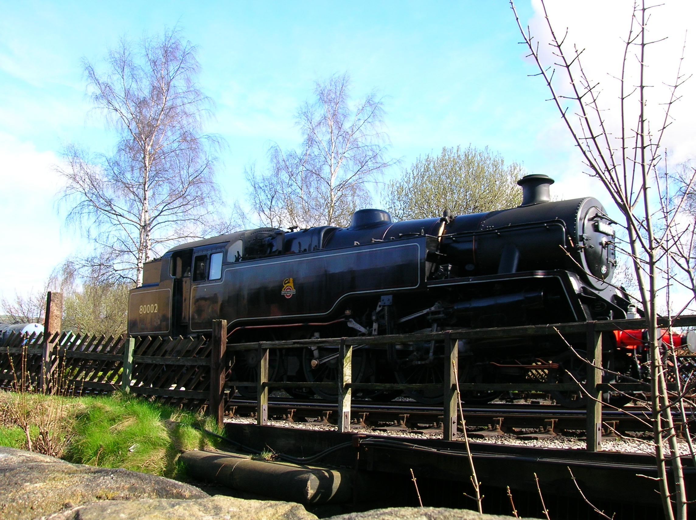 Description:Keighley & Worth Valley Railway, Keighley, West Yorkshire Image credited to:helena.40proof